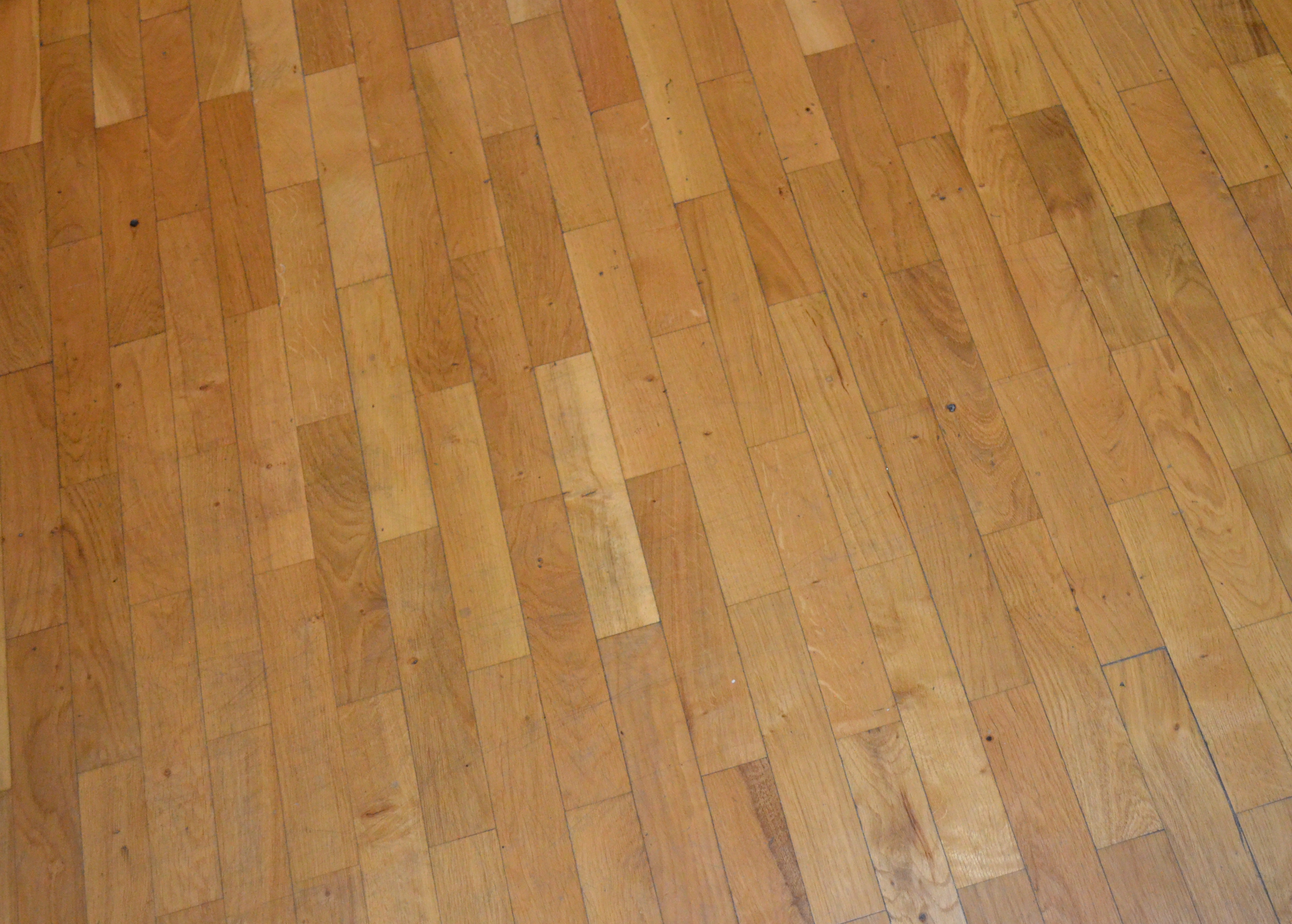 wooden floor